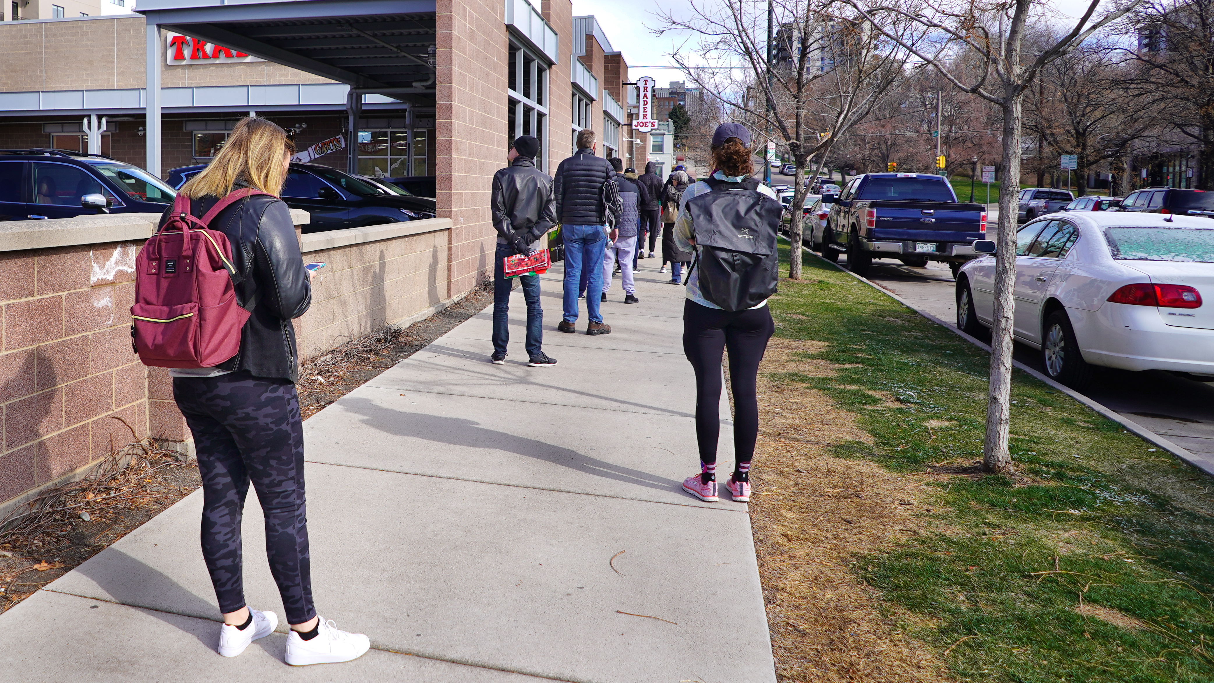 ...while waiting in line for admittance to Trader Joe's, Denver (Logan Street). The line moved quickly, and the weather was crisp and sunny—a delightful morning for standing in the sunshine.